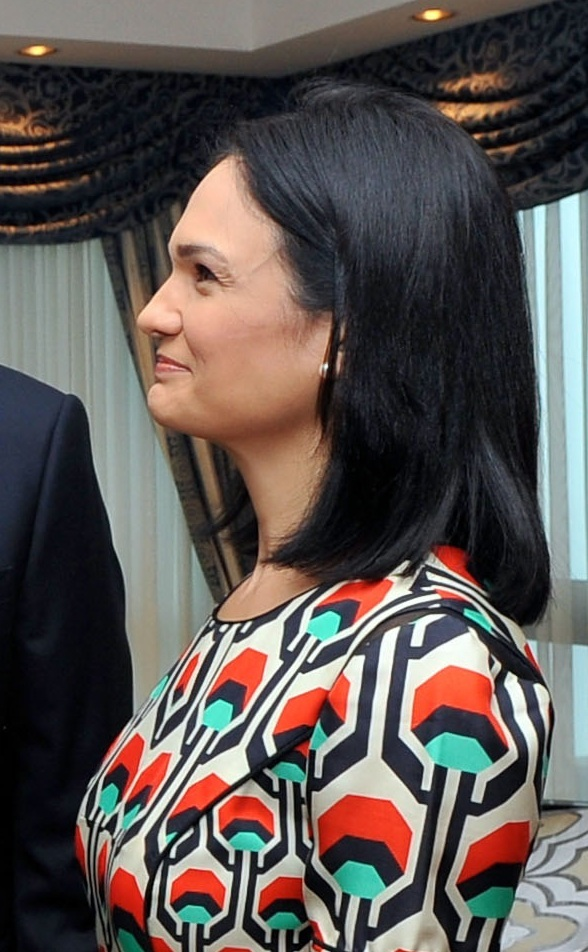 Isabel Saint Malo, Vicepresident of Panamá (2014- )